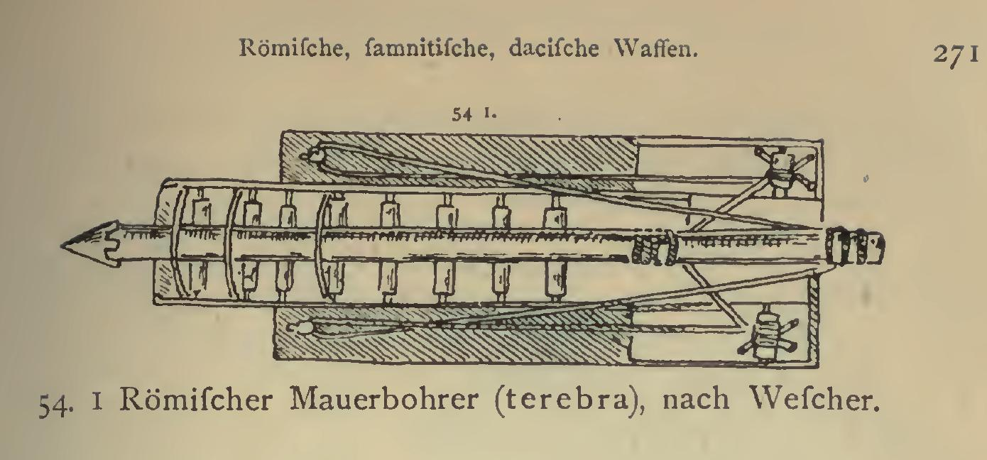 Roman terebra: a boring drill for starting a breach in a fortified wall